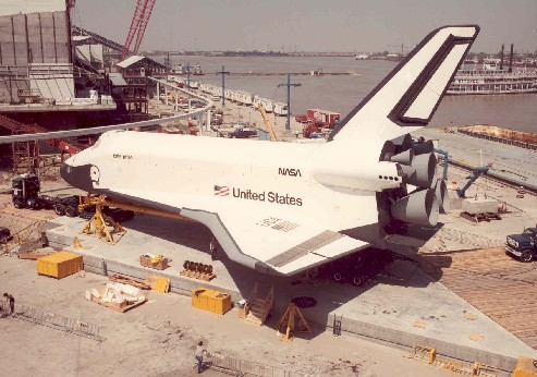 Space Shuttle Enterprise being readied for display at the 1984 World Fair, New Orleans.